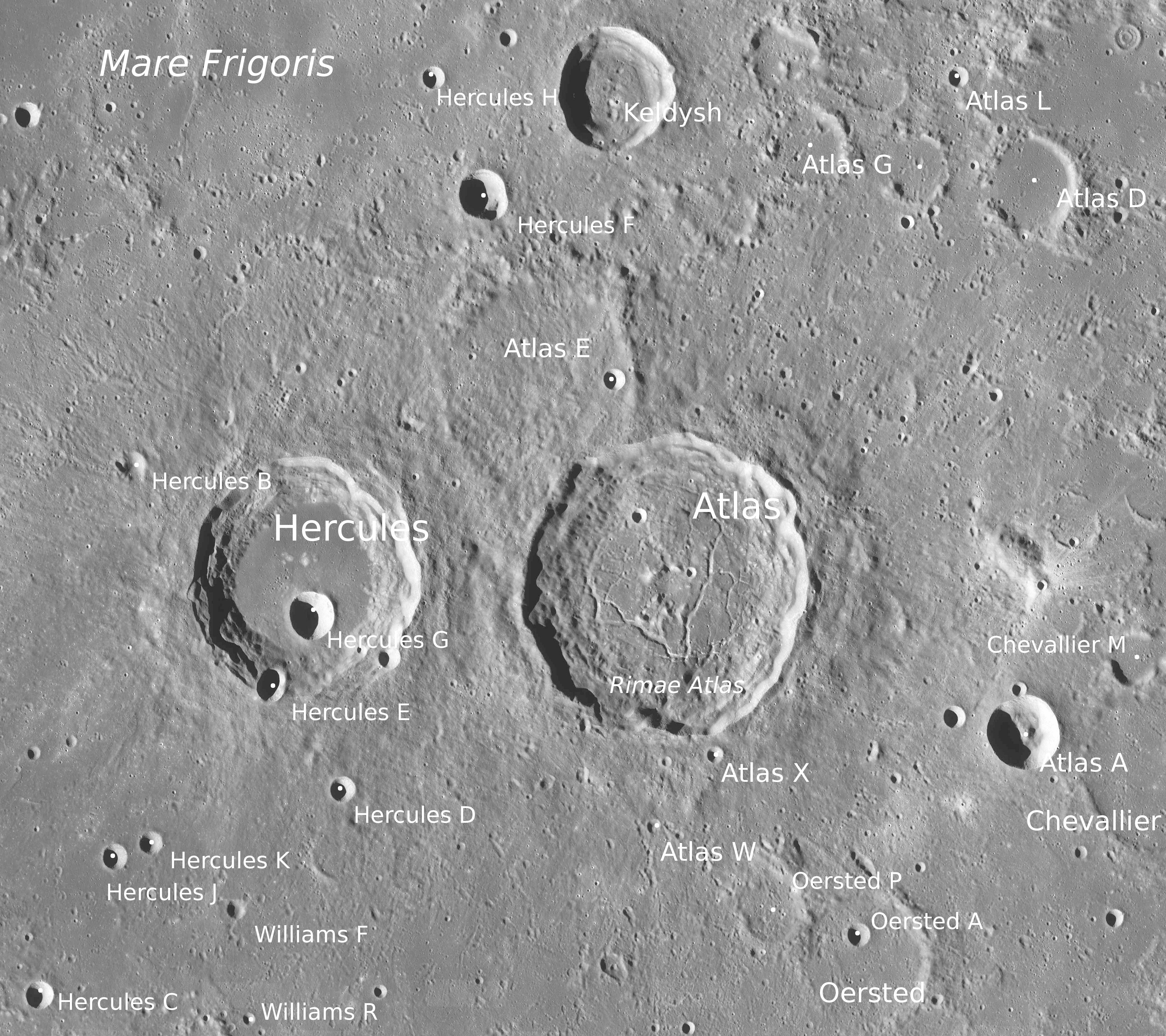 Craters Hercules and Atlas with satellite features (detail of LRO - WAC global moon mosaic; Mercator projection)